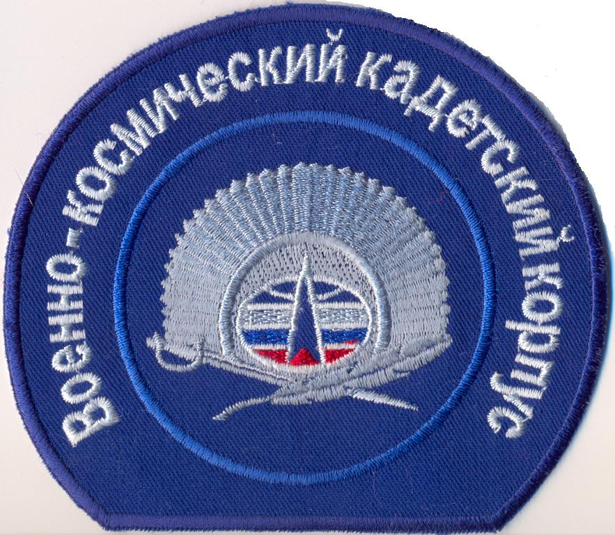 Peter the Great Military Space Cadet Corps sleeve insignia